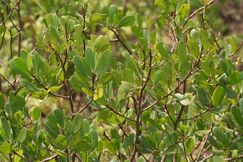 Black Mangrove Lumnitzera racemosa in Krishna Wildlife Sanctuary, Andhra Pradesh, India.